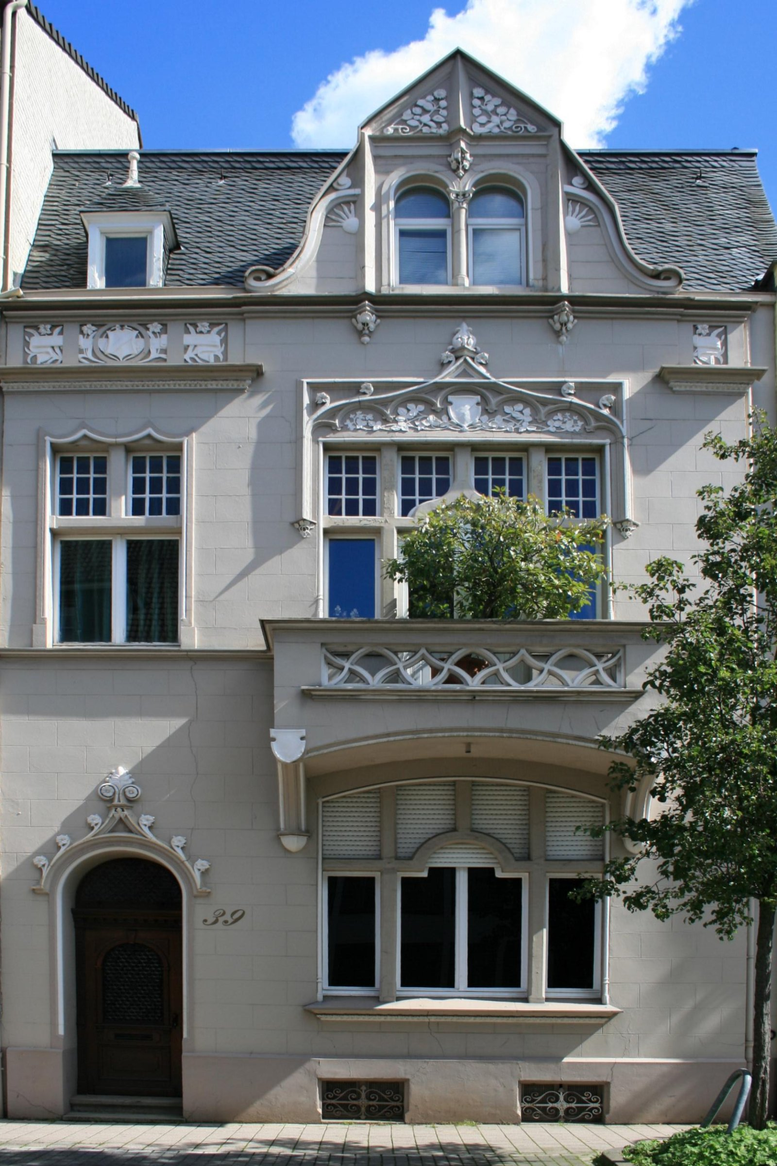 Cultural heritage monument No. W 016 in Mönchengladbach